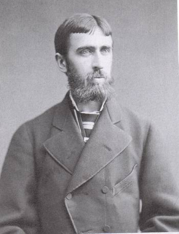 Alfonso Carlos of Bourbon, Duke of San Jaime